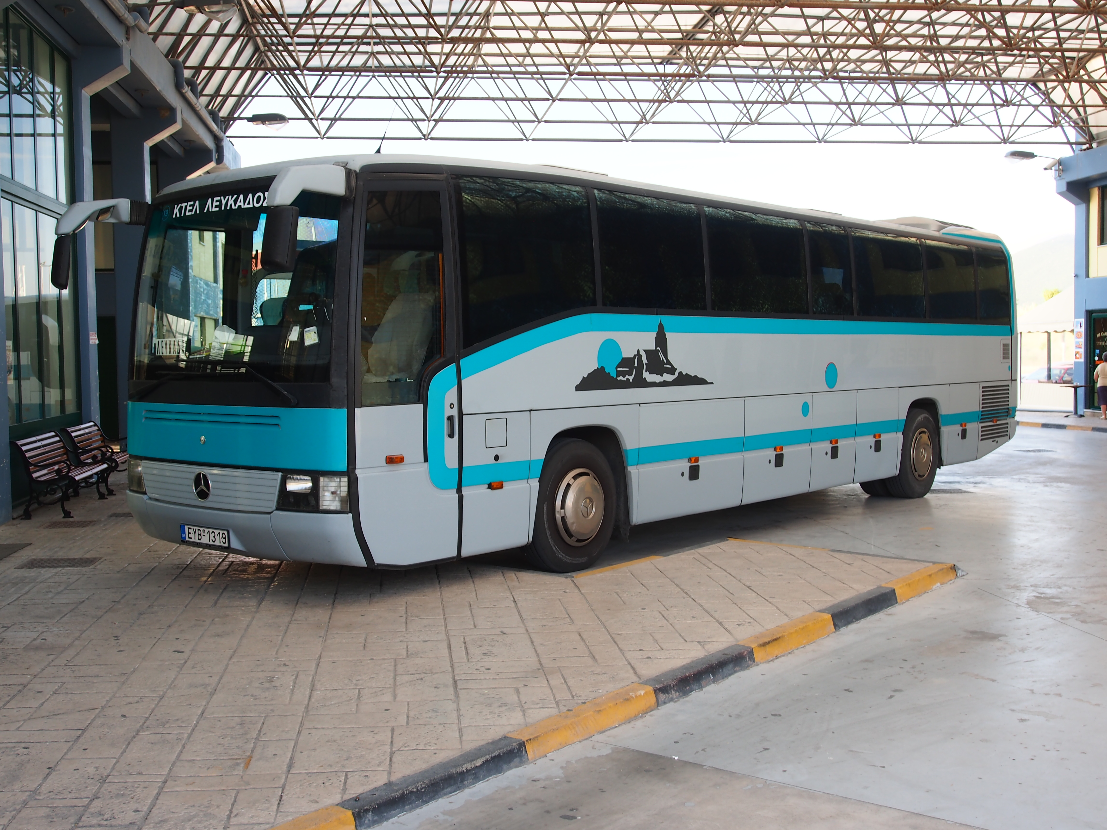 Photographed in Lefkada, Greece.